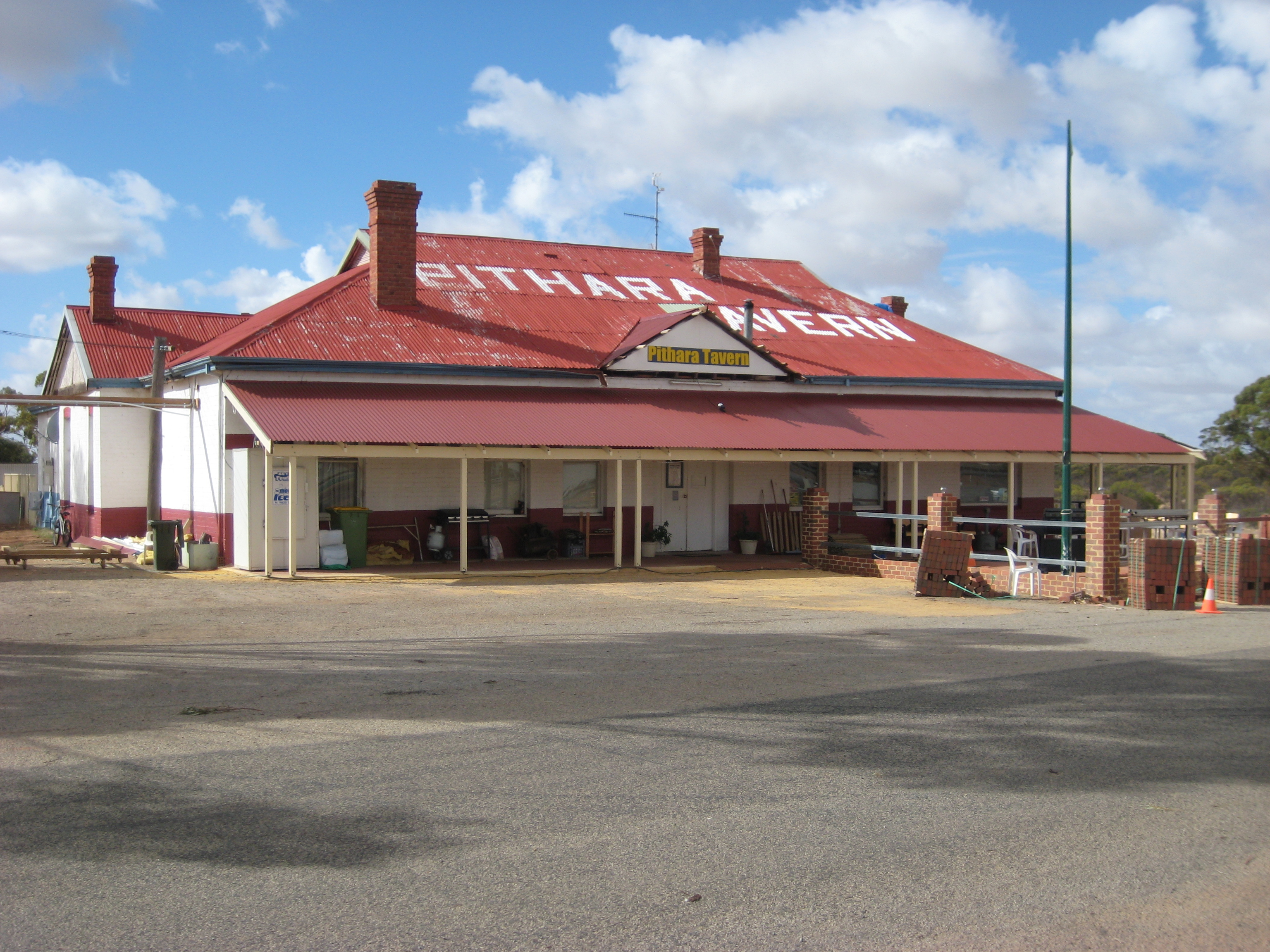 The Pithara Tavern, Western Australia.